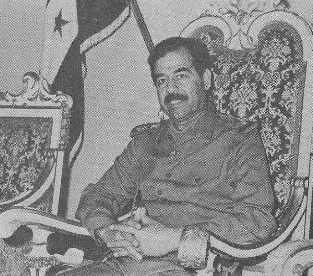 President Saddam Hussein of Iraq, "Baghdad Observer" frontpage 26th of January and 21st of June 1988